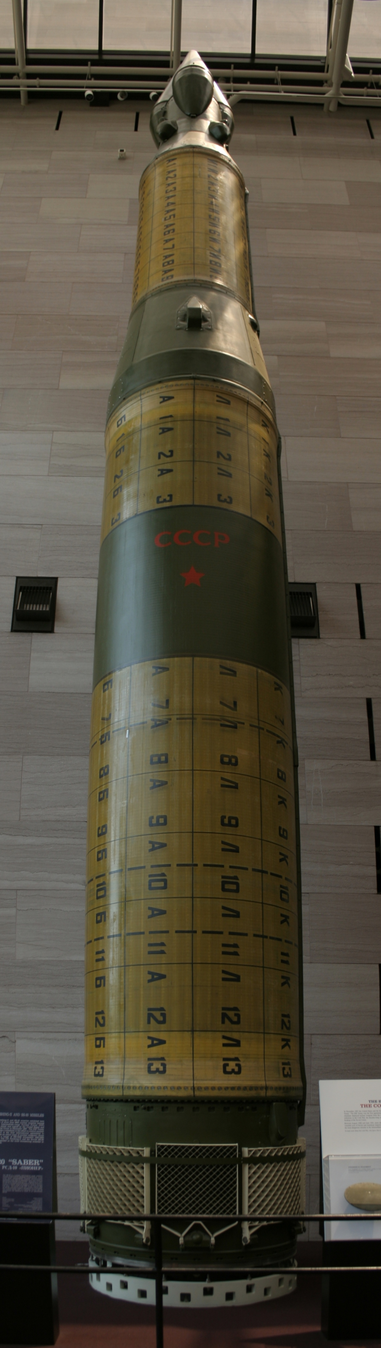 Soviet SS-20 nuclear missile at National Air and Space Museum (Washington D.C.)